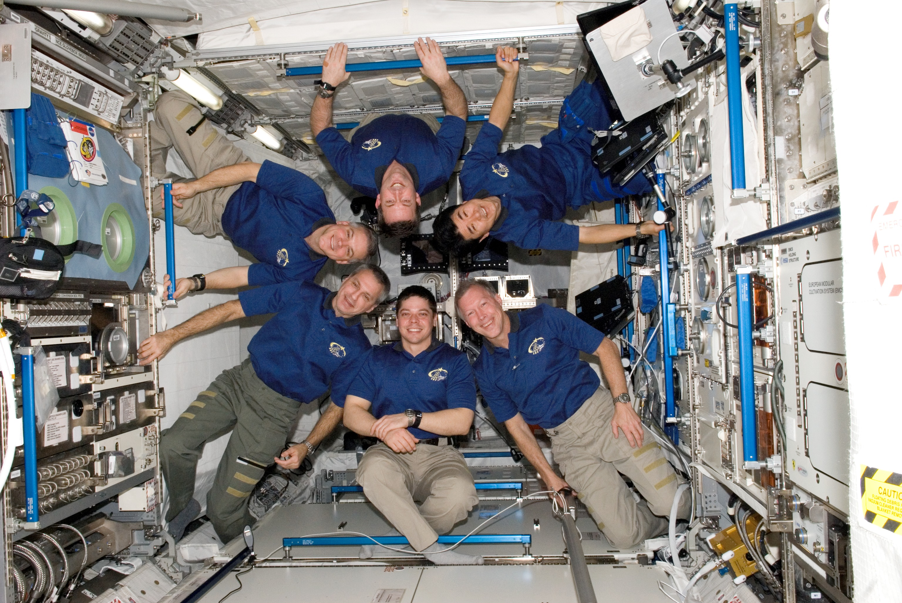 The STS-123 crew used part of its last full day onboard the International Space Station posing for some in-space crew portraits. These six astronauts launched aboard the Space Shuttle Endeavour on March 11 and are scheduled to return aboard it on March 26. Clockwise from the lower right corner are astronauts Dominic Gorie, commander; Robert L. Behnken and Rick Linnehan, both mission specialists; Gregory H. Johnson, pilot; and Mike Foreman and JAXA's Takao Doi, both mission specialists.